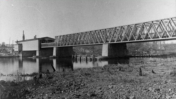 Photo looking northwest at the Newkirk Viaduct (also known as the Grays Ferry Bridge) across the Schuylkill River in southern Philadelphia, Pennsylvania. Built in 1838 and rebuilt and improved several times before being demolished around 1902, the bridge had an unusual draw span that retracted into another span.